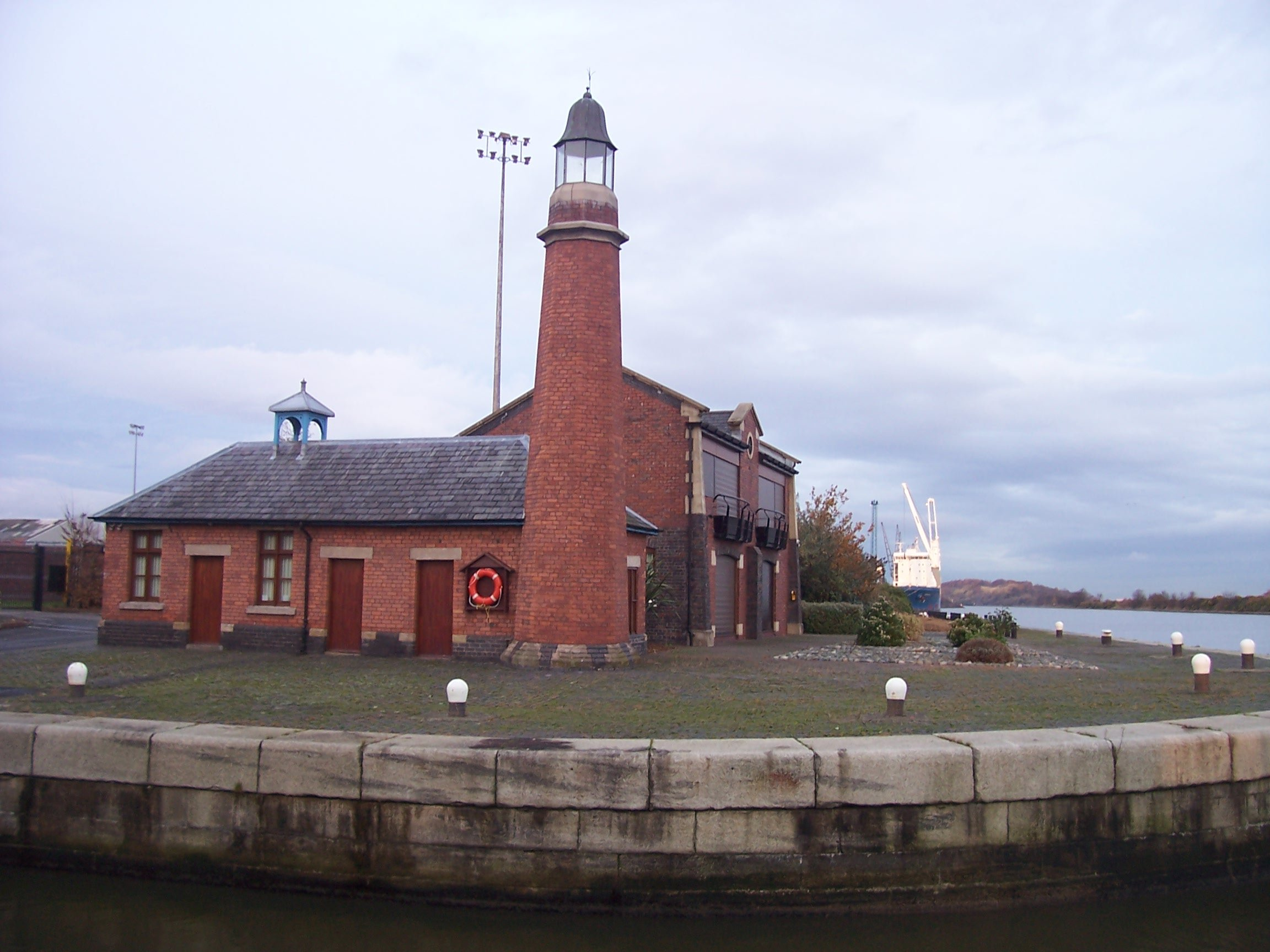 Whitby lighthouse and harbour master's office at Ellesmere Port Dock, Ellesmere Port at the junction of the Ellesmere Canal lower basin and the Manchester Ship Canal.